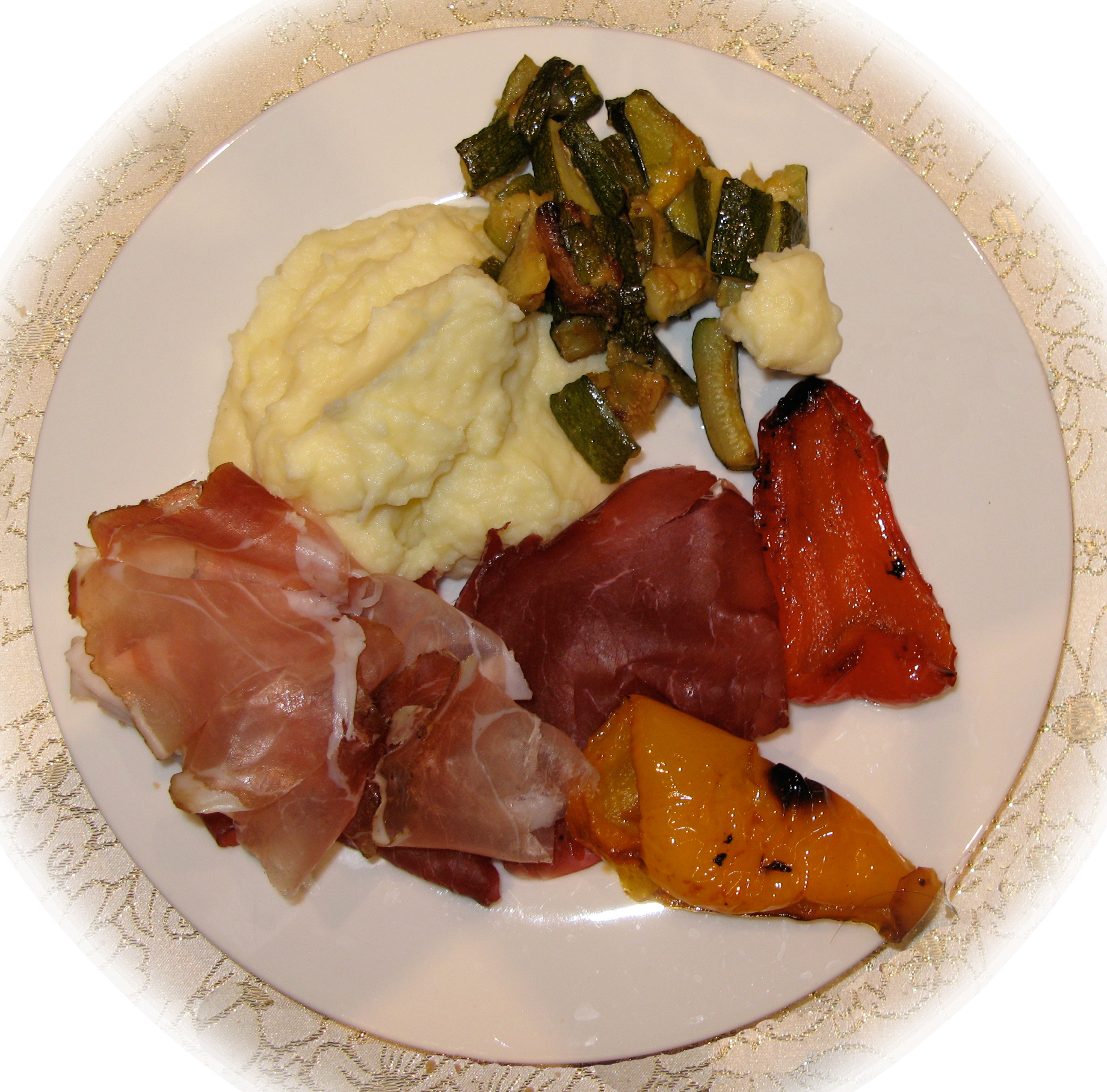 bacon, ham, mashed potatoes and grilled vegetables